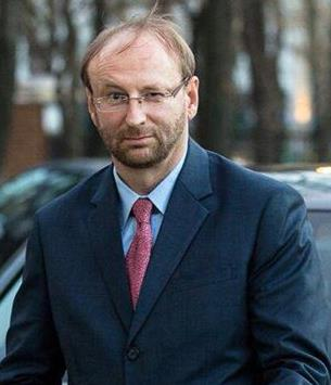 (born 22 December 1964, Hradec Králové) Czech diplomat Special Envoy for Holocaust era issues and combat of Antisemitism of the Ministry of Foreign Affairs of the Czech Republic